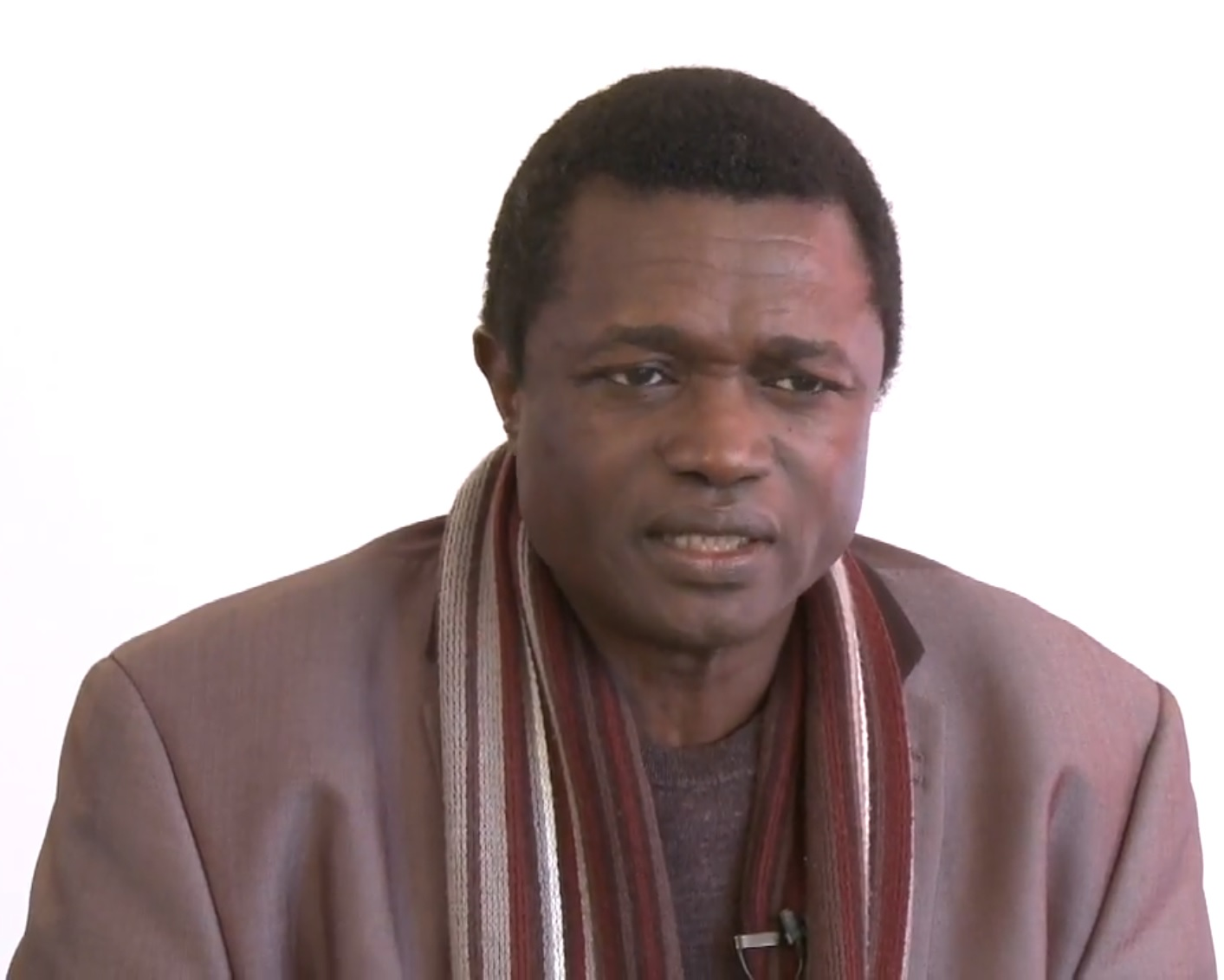 Prof. Ogobara Doumbo, Director of the Malaria Research and Training Centre, Faculty of Medicine, University of Bamako, Mali for the GABRIEL network